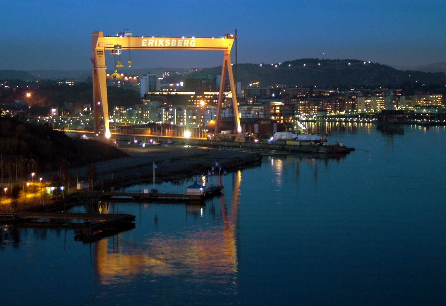 A picture of Eriksberg before it was build in to a huge residential complex